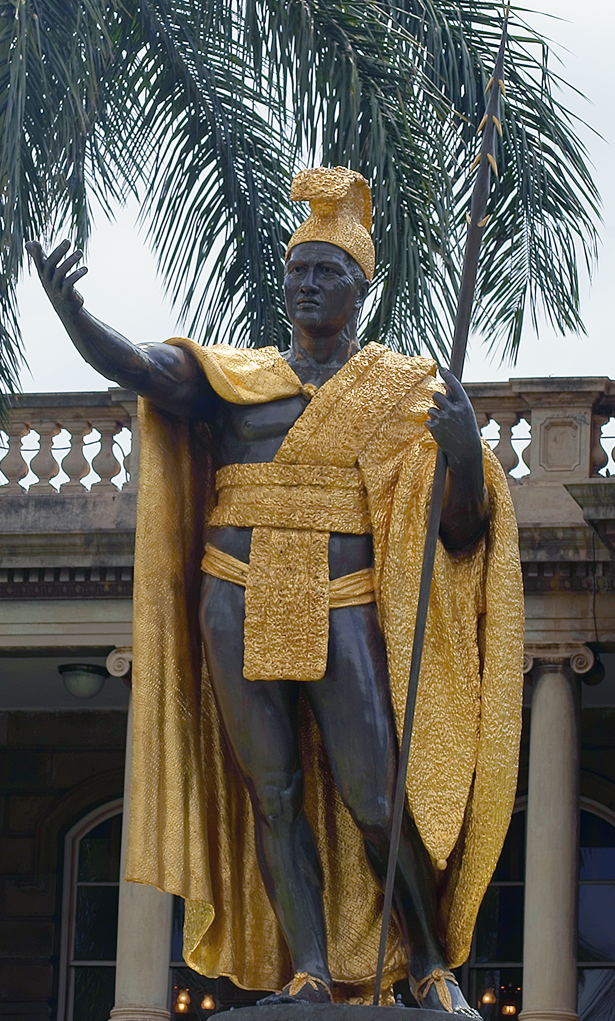 Statue of King Kamehameha I, standing in front of Ali'iolani Hale in Honolulu. Cast: 1881, bronze with gold leaf. Approx 8½ feet tall on a 10 foot concrete base. The pedestal has four bronze and gold leaf plaques with scenes from Kamehameha's life. Sculptor: Thomas Ridgeway Gould (1818–1881).